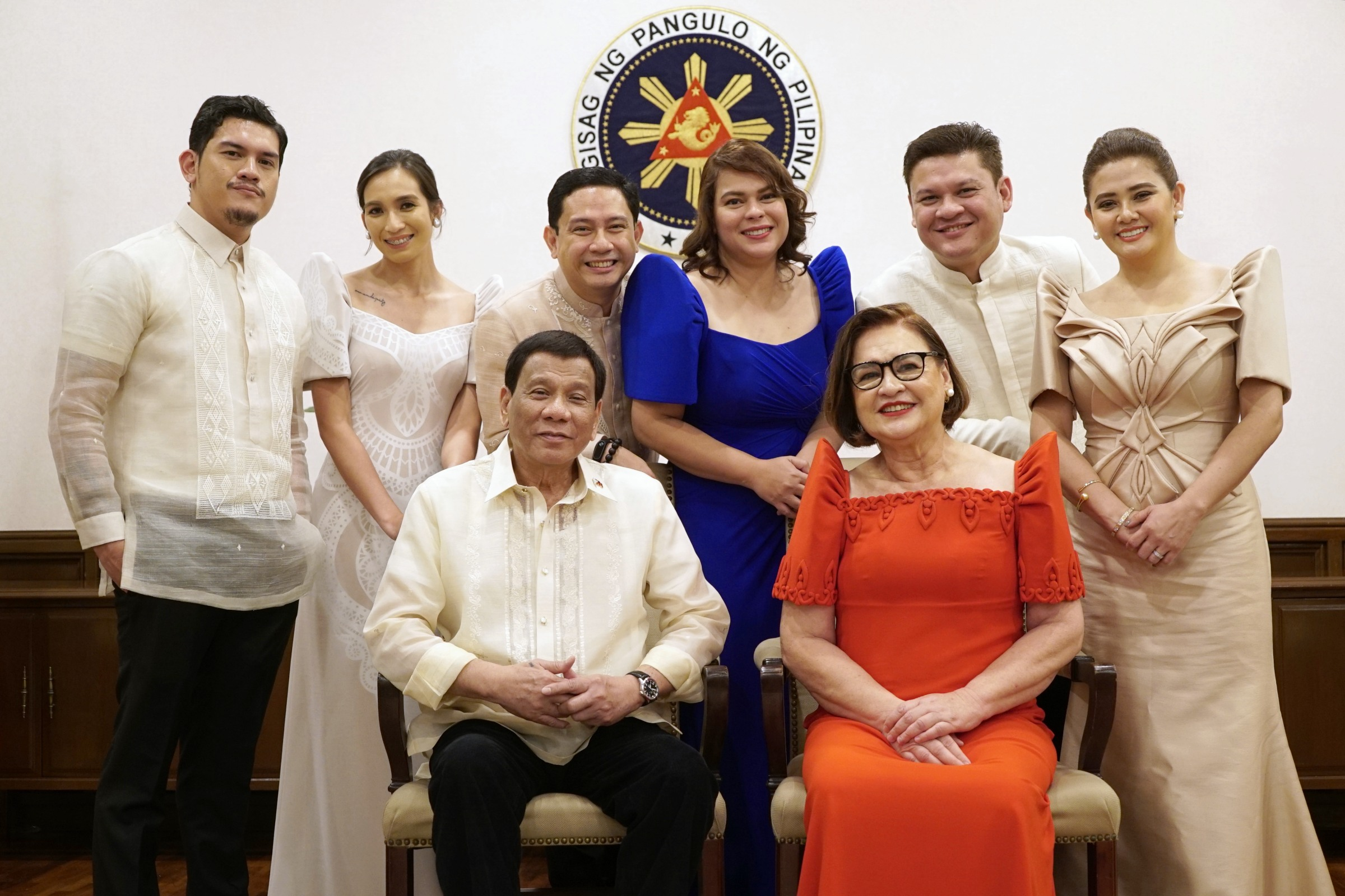 President Rodrigo Roa Duterte poses for a photo with the first family after delivering his third State of the Nation Address (SONA) at the Session Hall of the House of Representatives Complex in Constitution Hills, Quezon City on July 23, 2018.